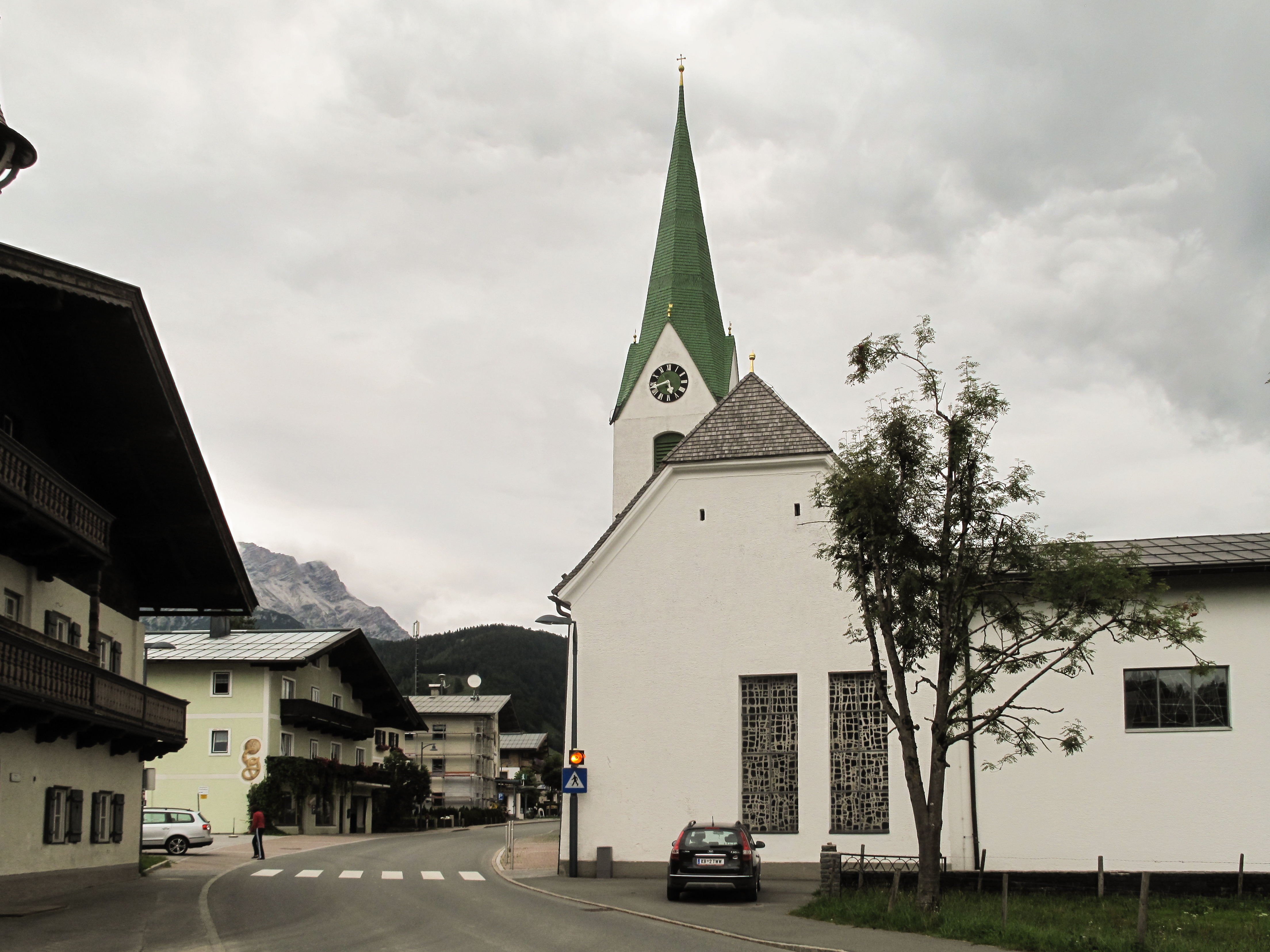 Hochfilzen, church: Katholische Pfarrkirche Unsere Liebe Frau Maria Schnee